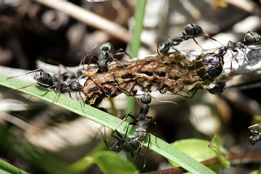 Formica japonica(クロヤマリ) they are carrying huge worm to their home together.